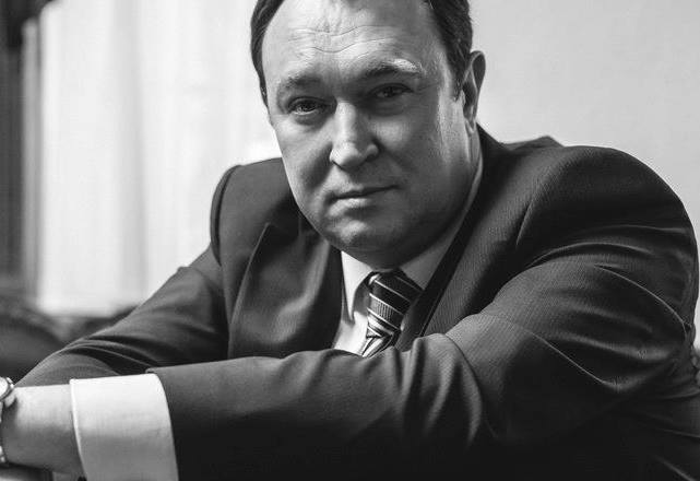 Alexandru Tănase